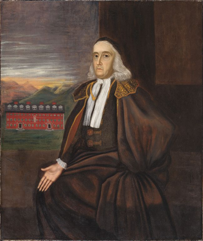 Larger version of File:WilliamStoughton-painting.png